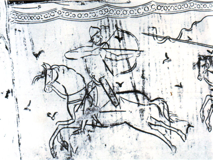 Hungarian warrior (10th century) from Patriarchate of Aquileia (fresco)